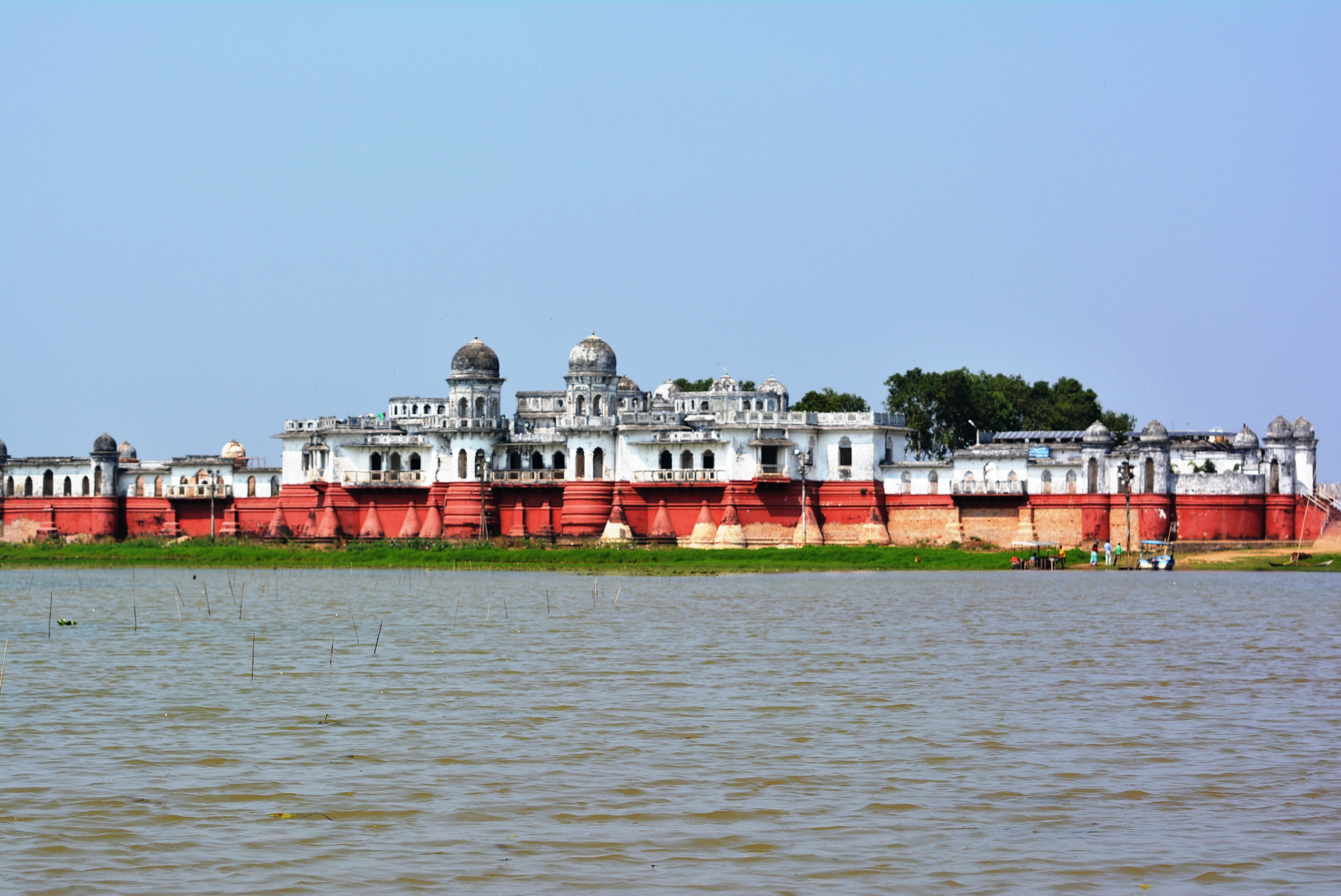 Neermahal is a former royal palace built by King Bir Bikram Kishore Debbarman of the erstwhile Kingdom of Tripura in the middle of the lake Rudrasagar in 1930. It is situated 53 kilometers away from the Agartala, the capital of Tripura. The palace is situated in the middle of Rudrasagar Lake and assimilates Hindu and Muslim architectural styles.Agartala.Tripura.INDIA